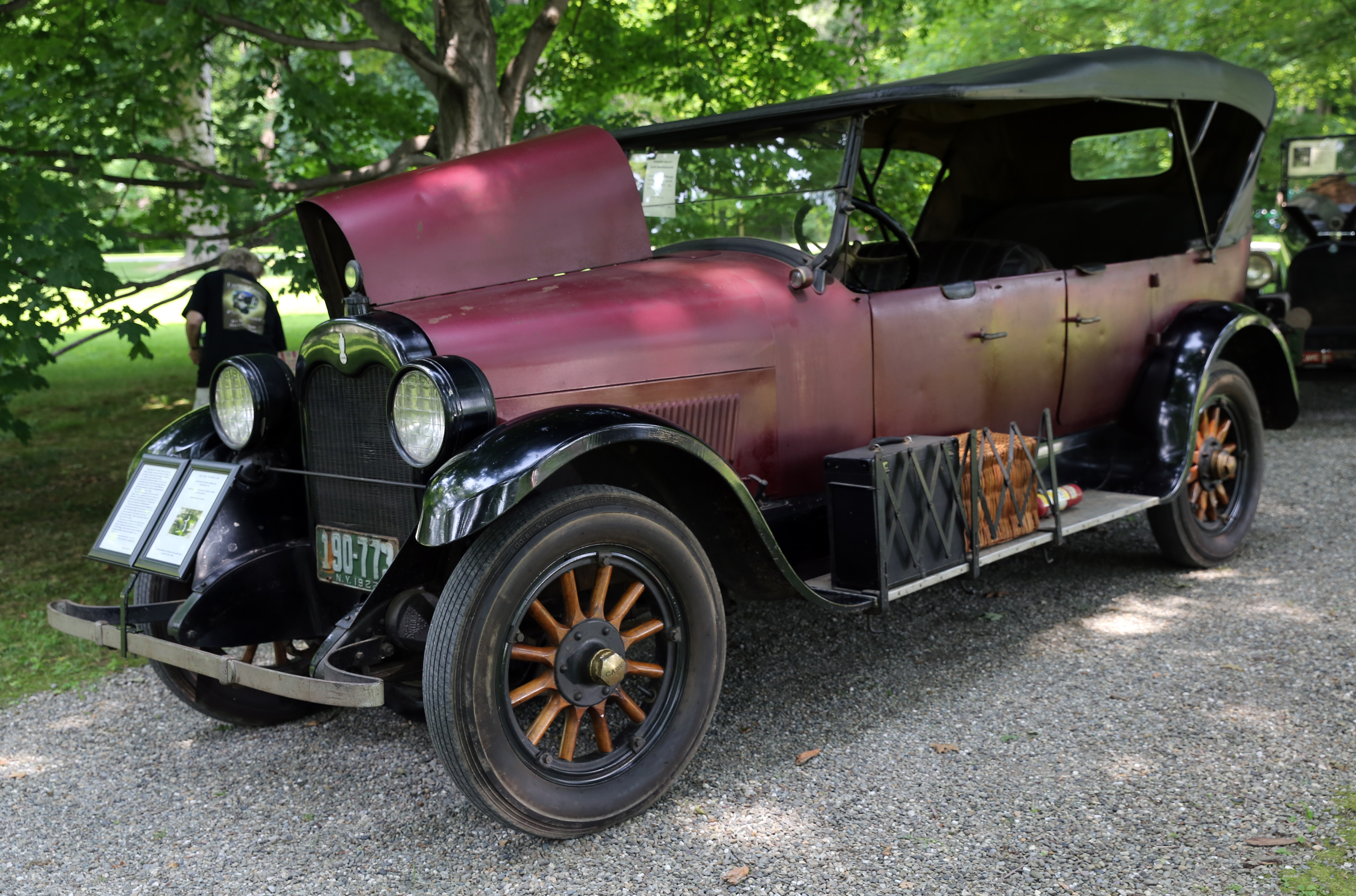 A 1922 Case Touring Car, owned by the original purchaser's daughter. 38,000 miles and unrestored.